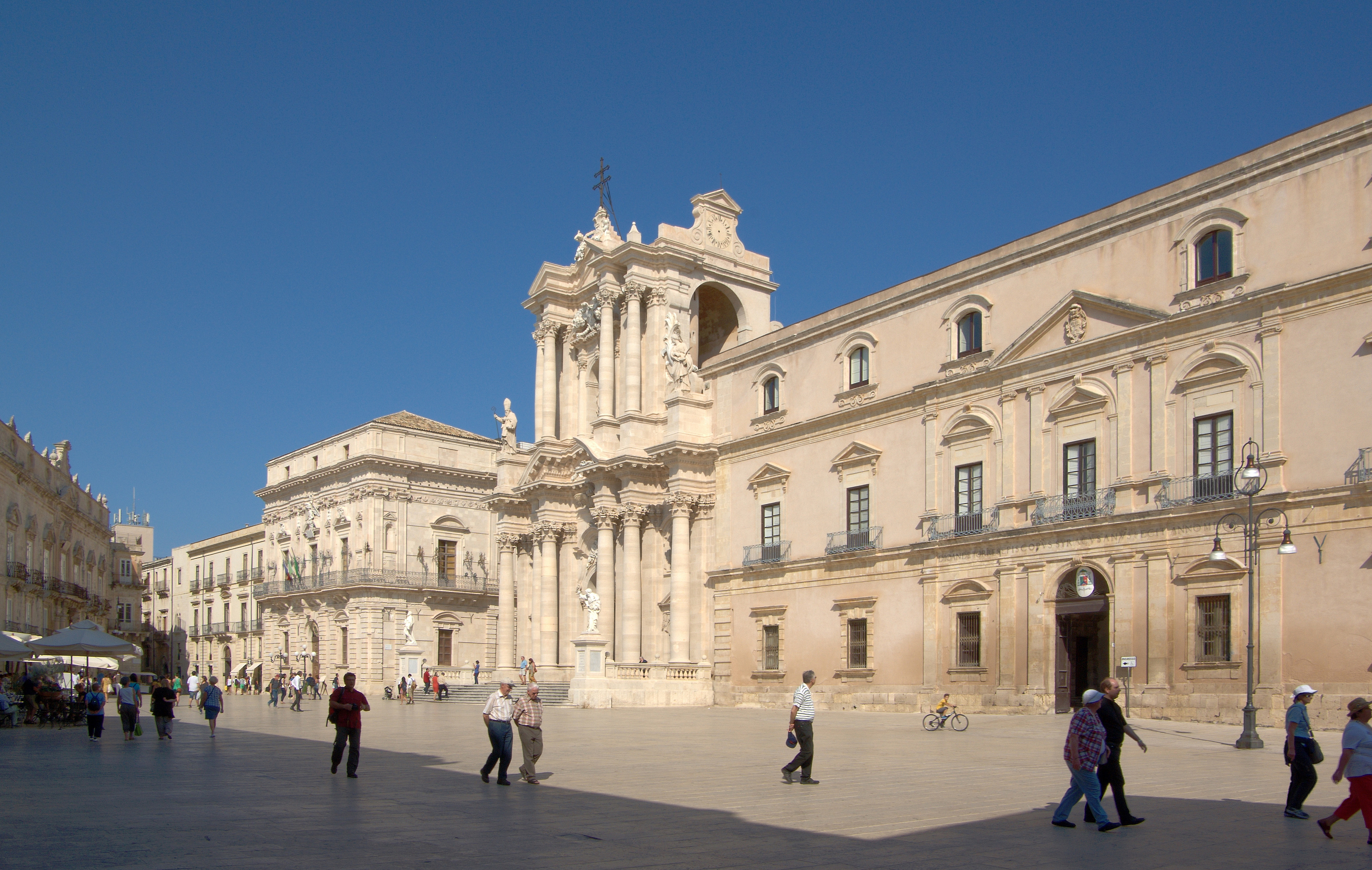 Italy, Sicily, Syracuse, cathedral Santa Maria delle Colonne